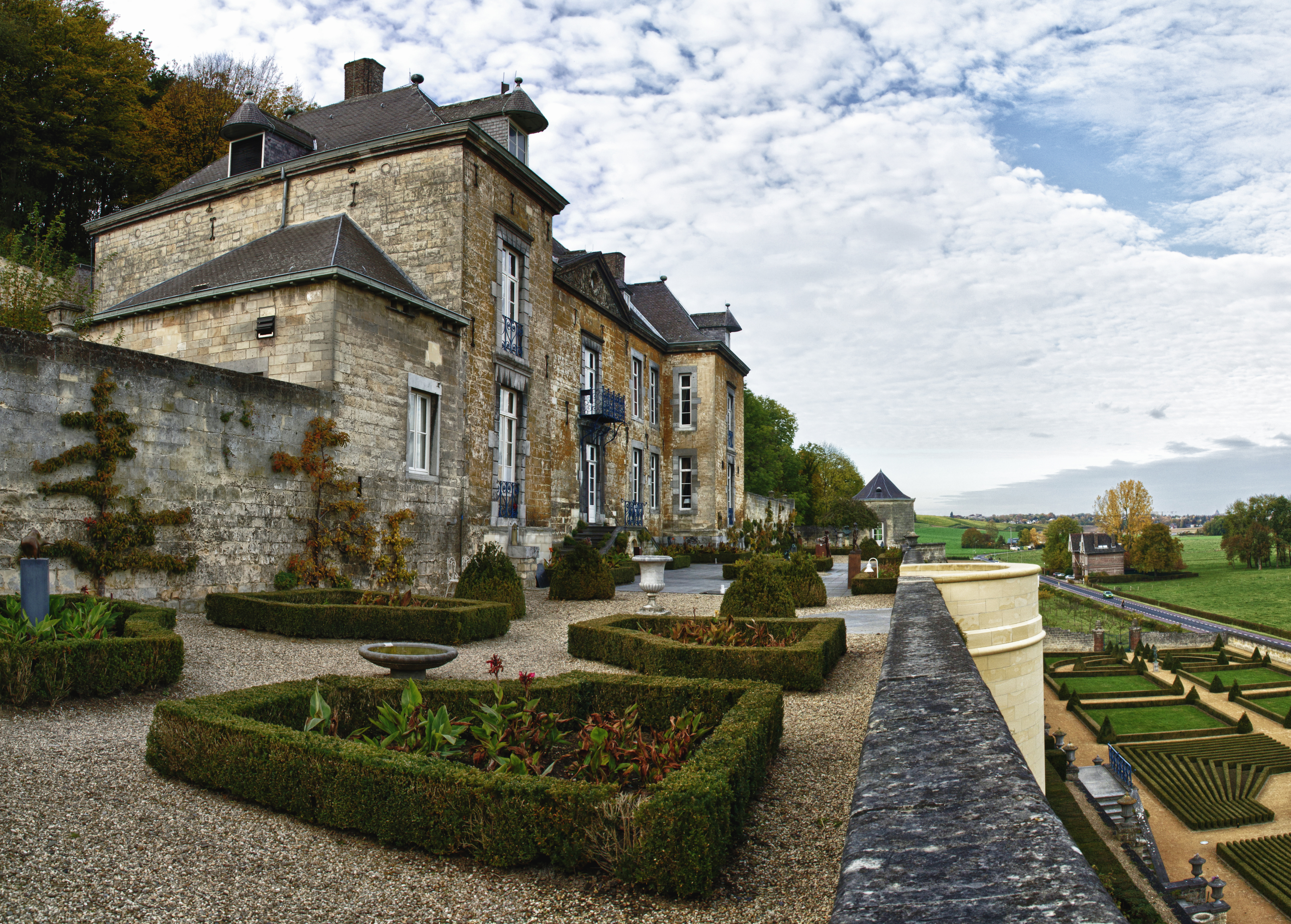 Kanne - Zuid-Limburg - the Netherlands Highest position Explore: #225 on Sunday, November 6, 2011